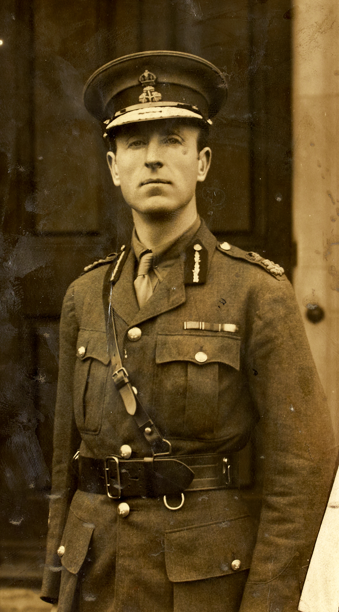 May I introduce you all to Charles (Charlie) Vane-Tempest-Stewart, 7th Marquess of Londonderry. Always amazed by searching serendipity! Had never heard of the Vane-Tempests until yesterday's Carnlough photograph, and then fell across this gentleman last evening when looking for somebody else entirely! NLI Ref.: BEA24